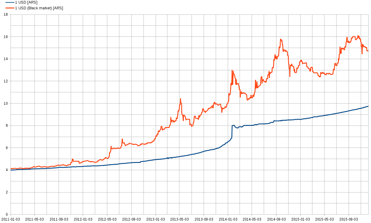 Argentina USD official exchange rate (blue) and USD exchange rate (black market) (orange) and monetary base, from 2011-01-01 to 2016-01-10.